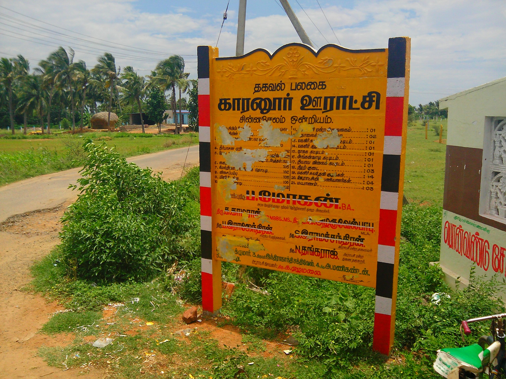 Karanoor Panchayat, Kallakurichi District, Tamilnadu, India.